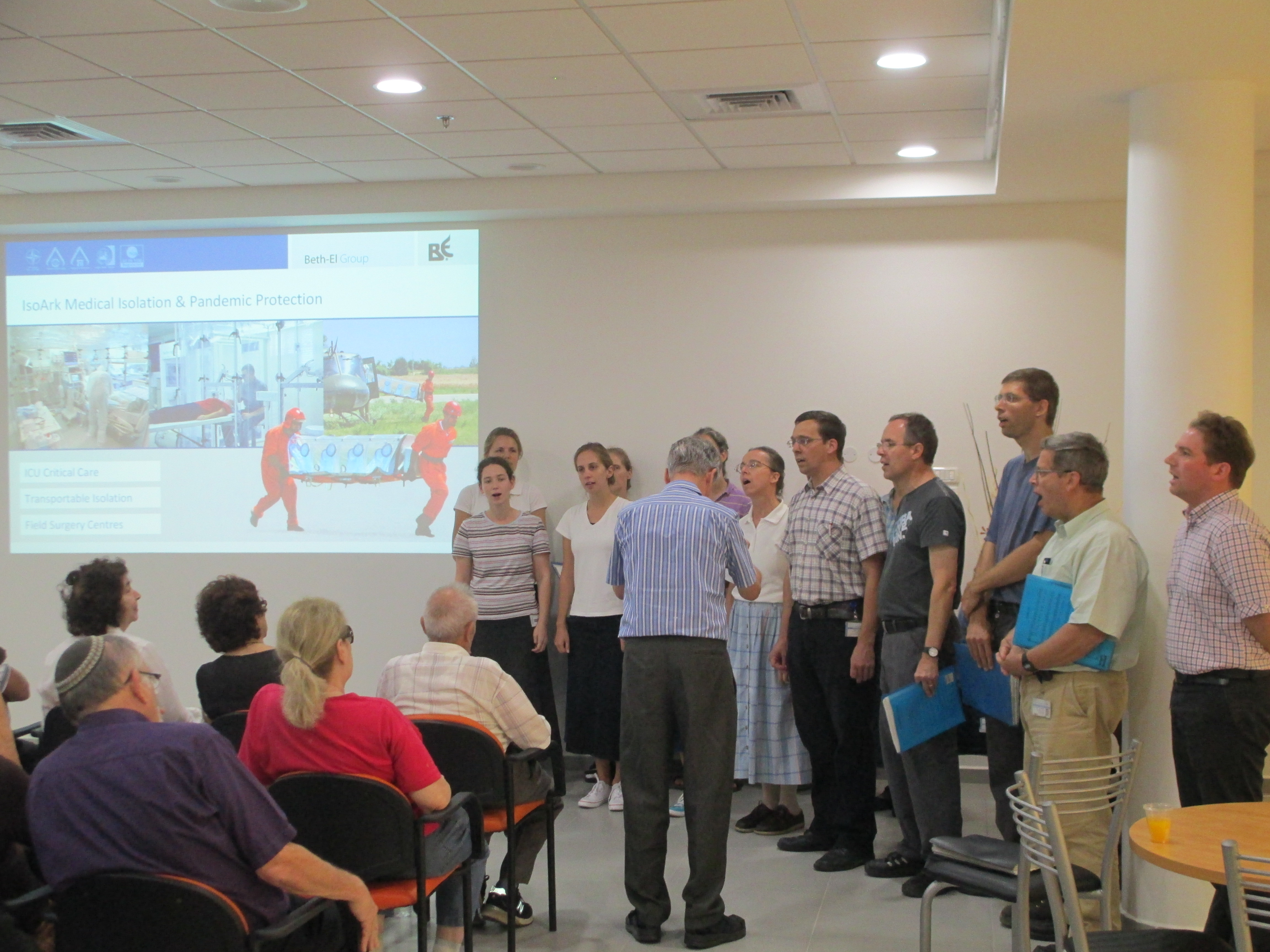 Beth-El industries in Zikhron Ya'akov